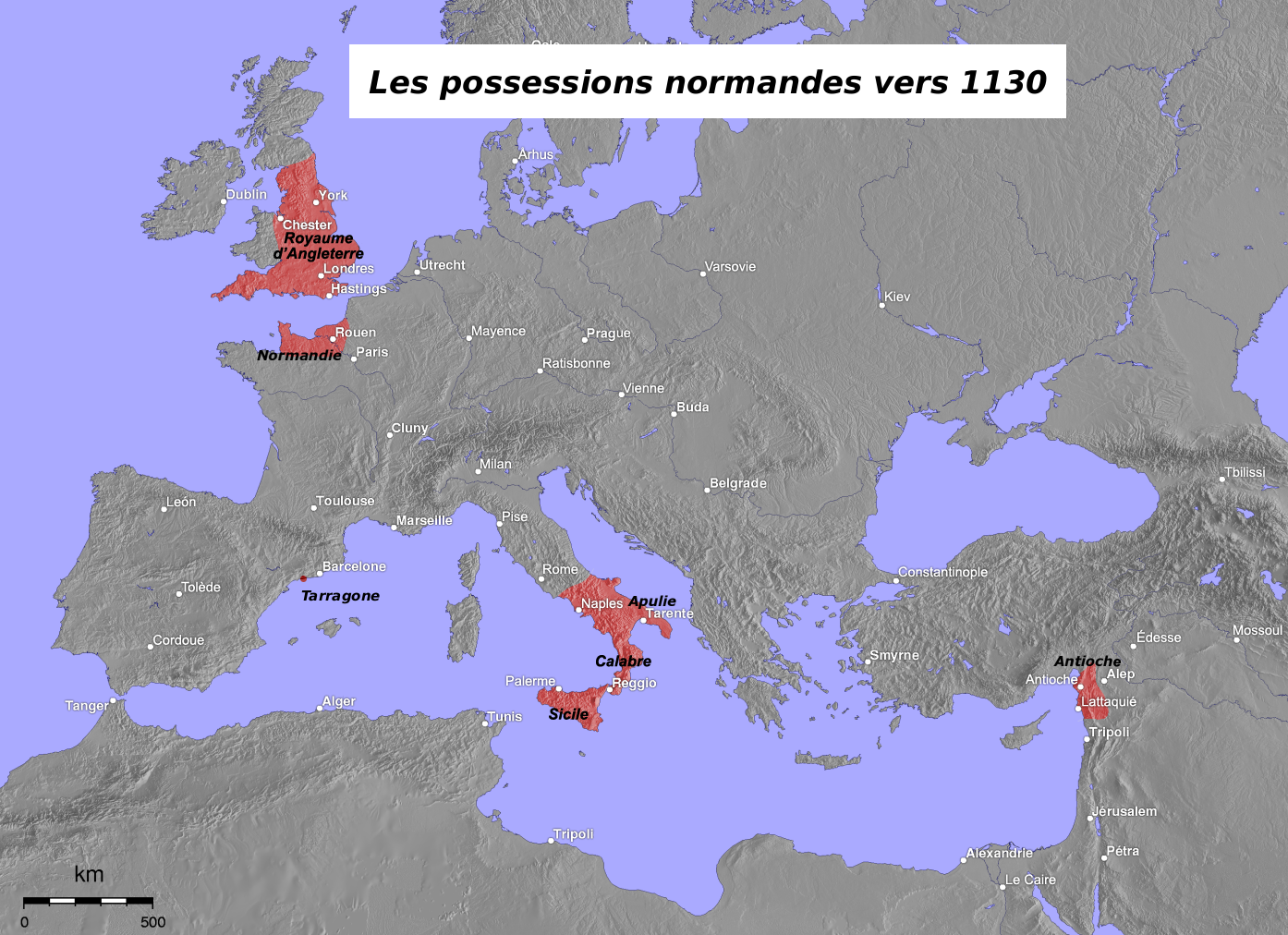 Map in French of the Normans' possessions in the 12th century